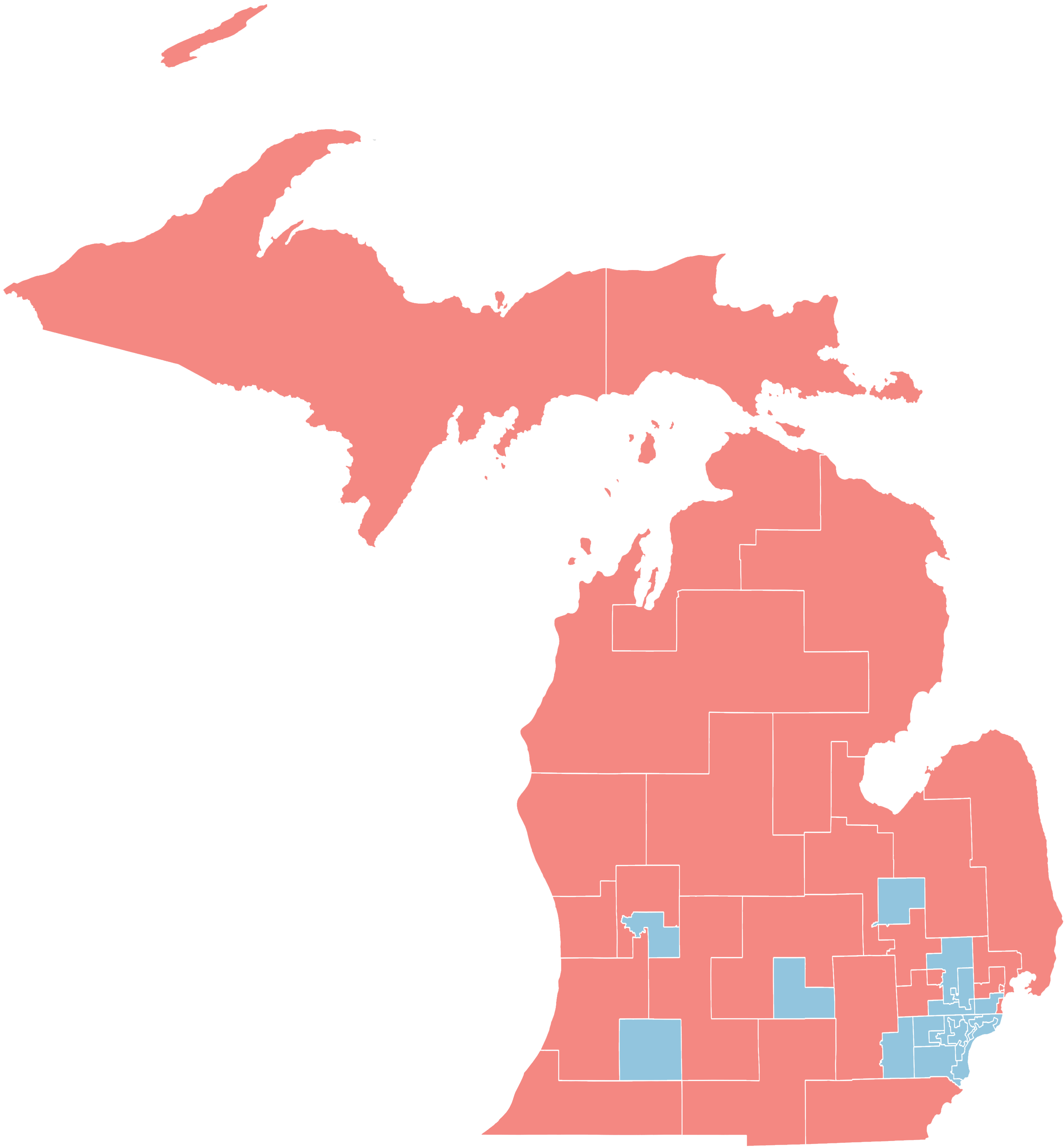 Republican and Democratic Districts in the Michigan Senate (2018)